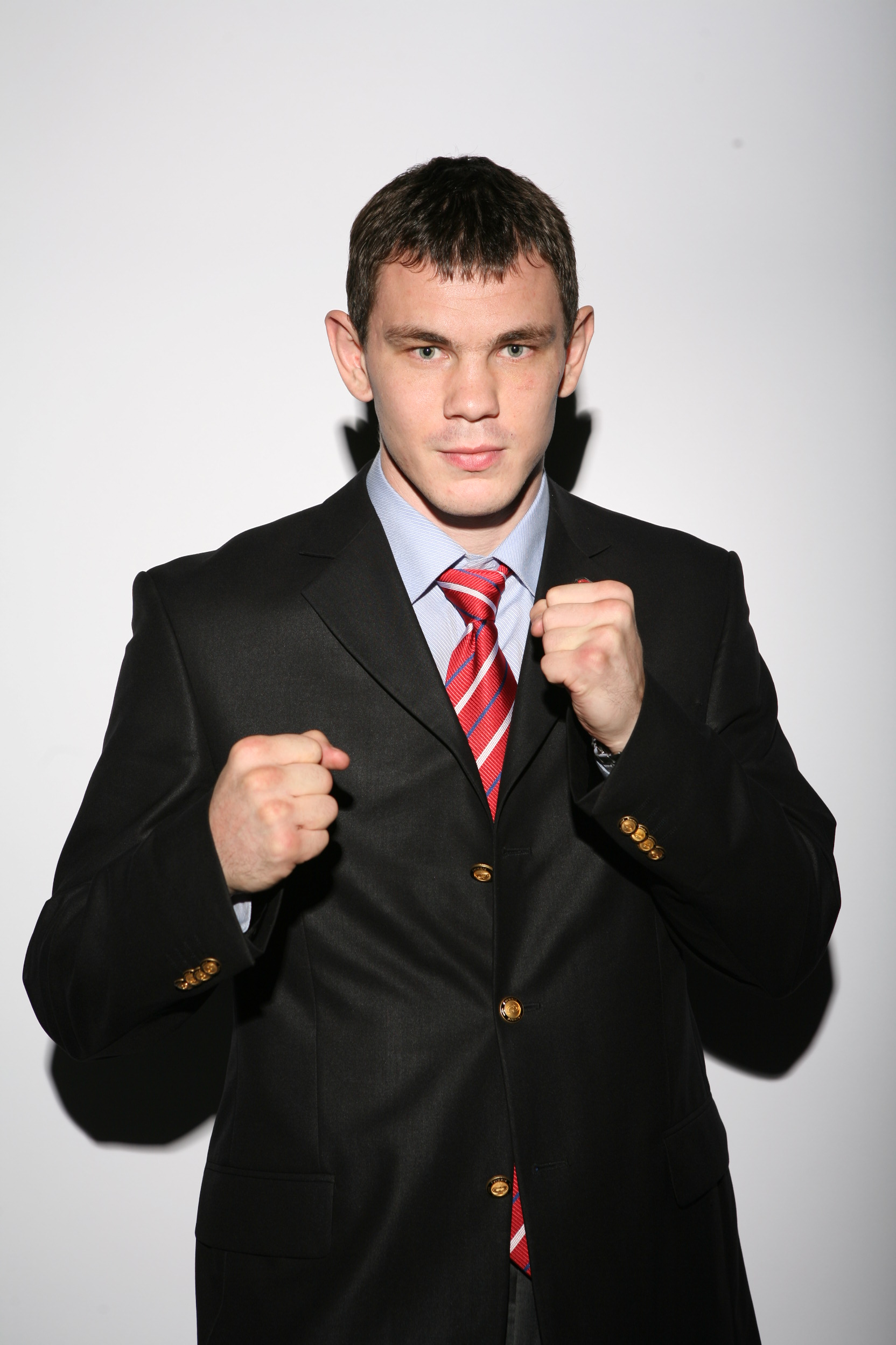 Yegor Mekhontsev.